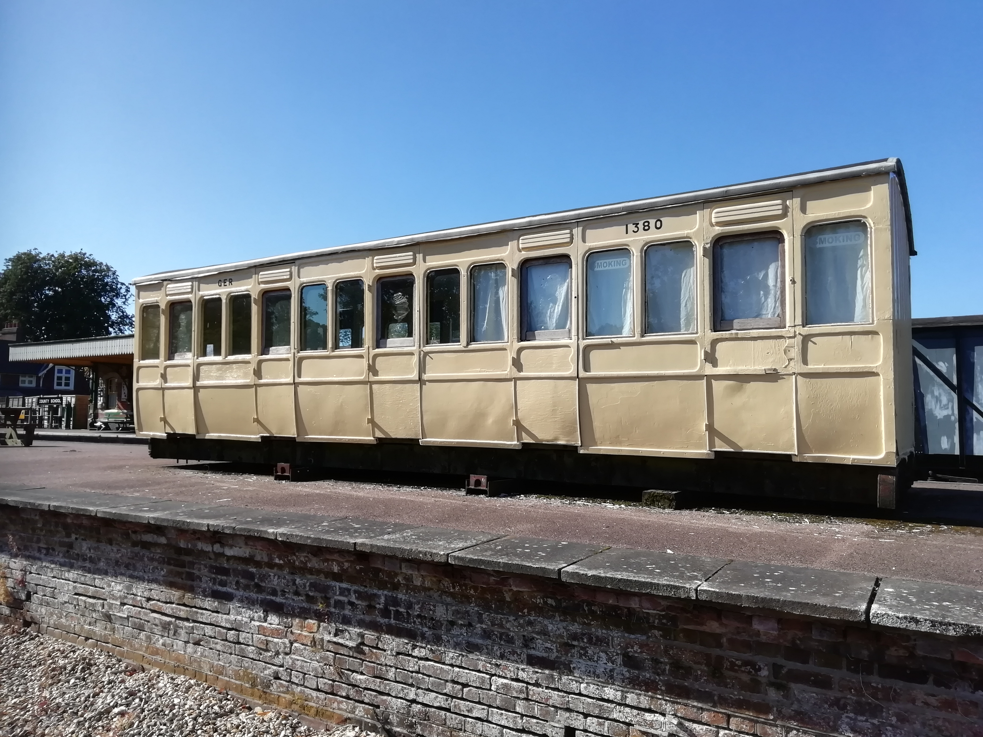 Great Eastern Railway Austere Third 1380, preserved as a static body at County School on the Mid-Norfolk Railway.